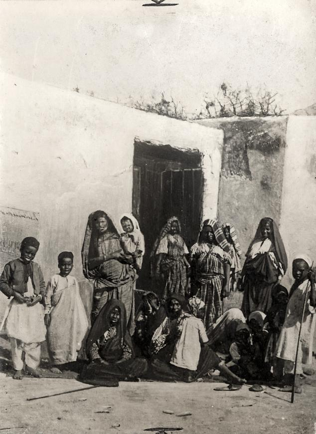 The courtyard of a harem in Tripoli in Northern Africa. 1911. Hebt u meer informatie over deze foto, laat het ons weten. Laat een reactie achter (als u ingelogd bent bij Flickr) of stuur een mailtje naar: Please help us gain more knowledge on the content of our collection by simply adding a comment with information. If you do not wish to log in, you can write an e-mail to: Meer foto’s van Spaarnestad Photo zijn te vinden op onze beeldbank